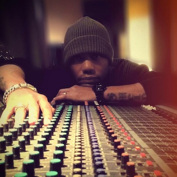 Herbie Crichlow, Crichtan songs Ab